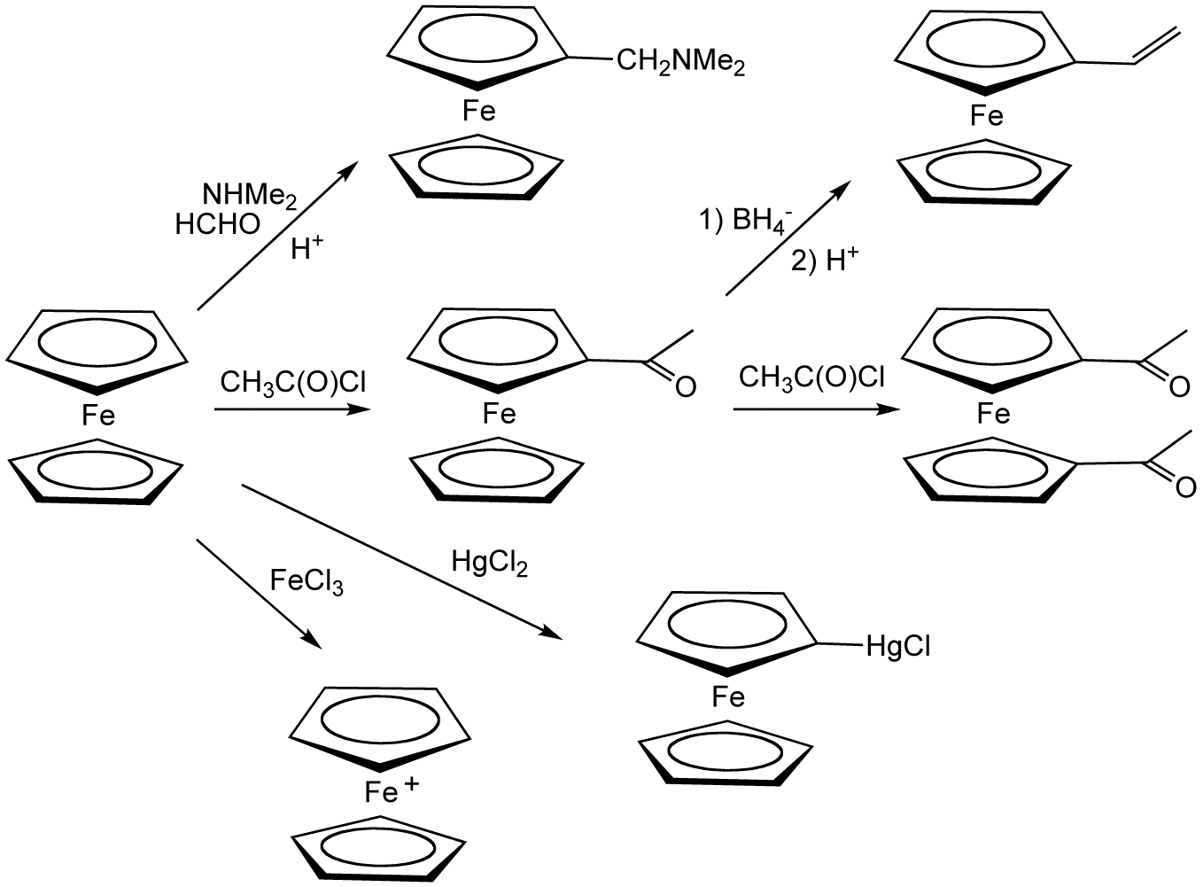 Important reactions of ferrocene with electrophiles and other reagents.